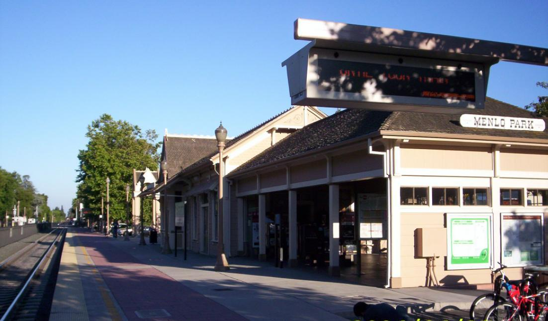 Menlo Park Railroad Station — Menlo Park, California. The image is of the train station from the north pointing south. It was taken at sunset. National_Register_of_Historic_Places_listings_in_San_Mateo_County. The metadata has the time. The picture is timestamped for clarity at the time of the shooting. (Original text also include: This images and the others at the 'source URL' may be used for any purpose whatsoever. I am the photographer and release all rights.)